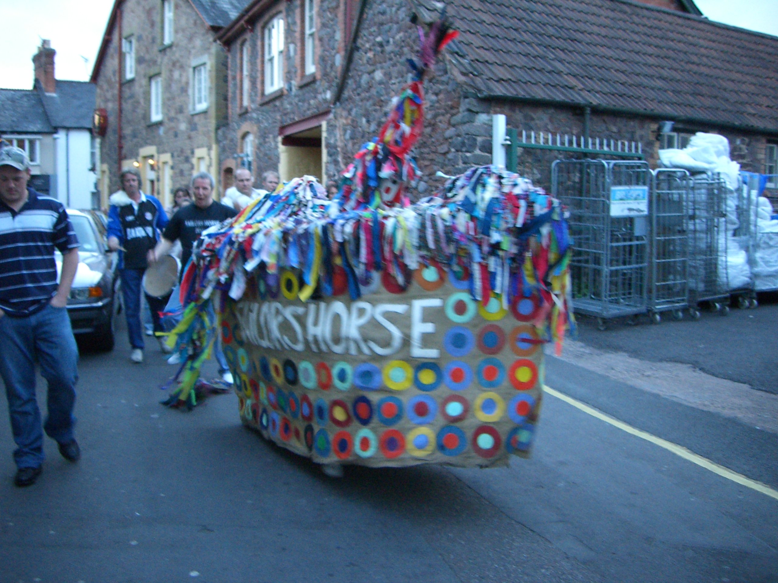 By Tim Kevan, free license